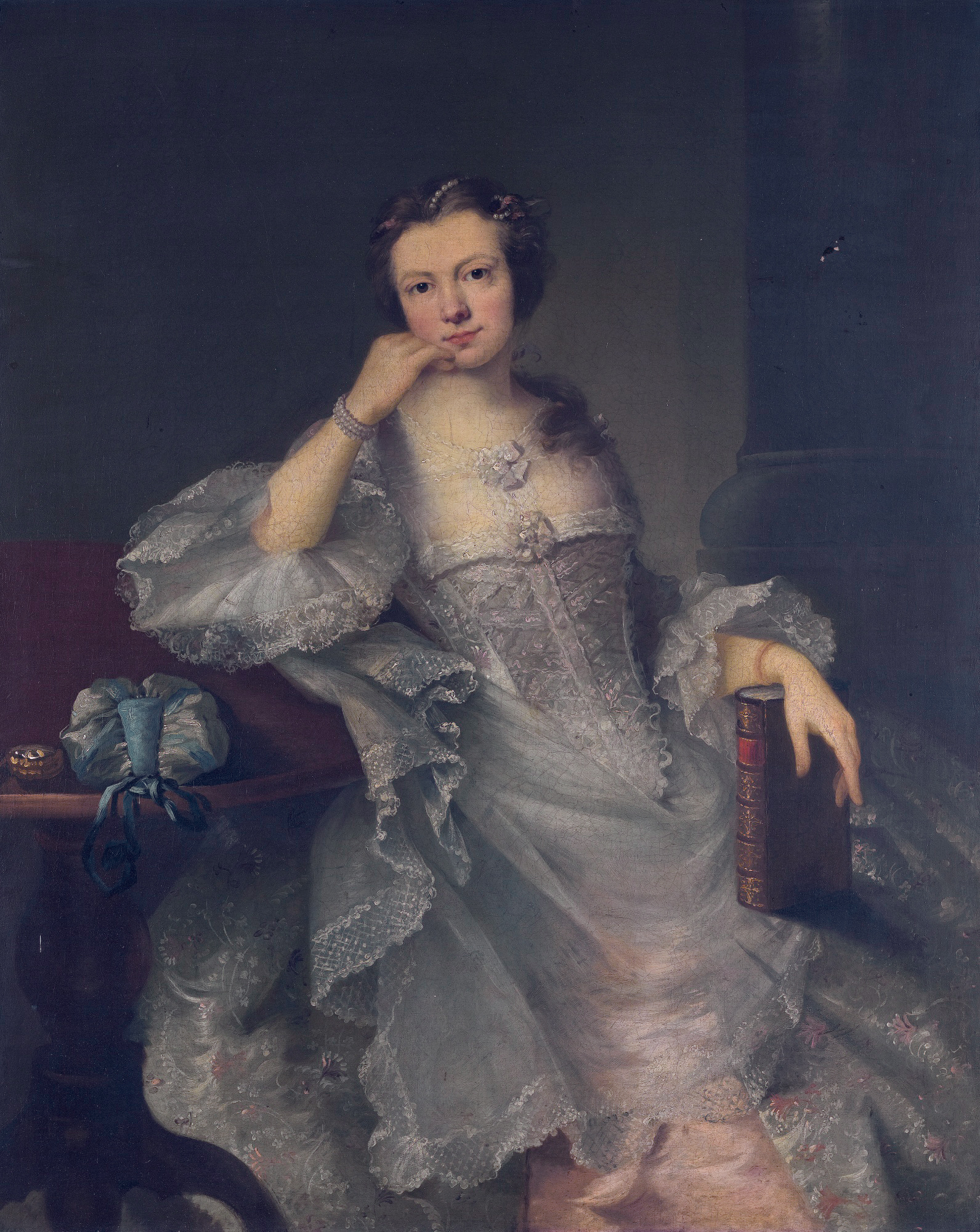 Portrait of Miss Bullock